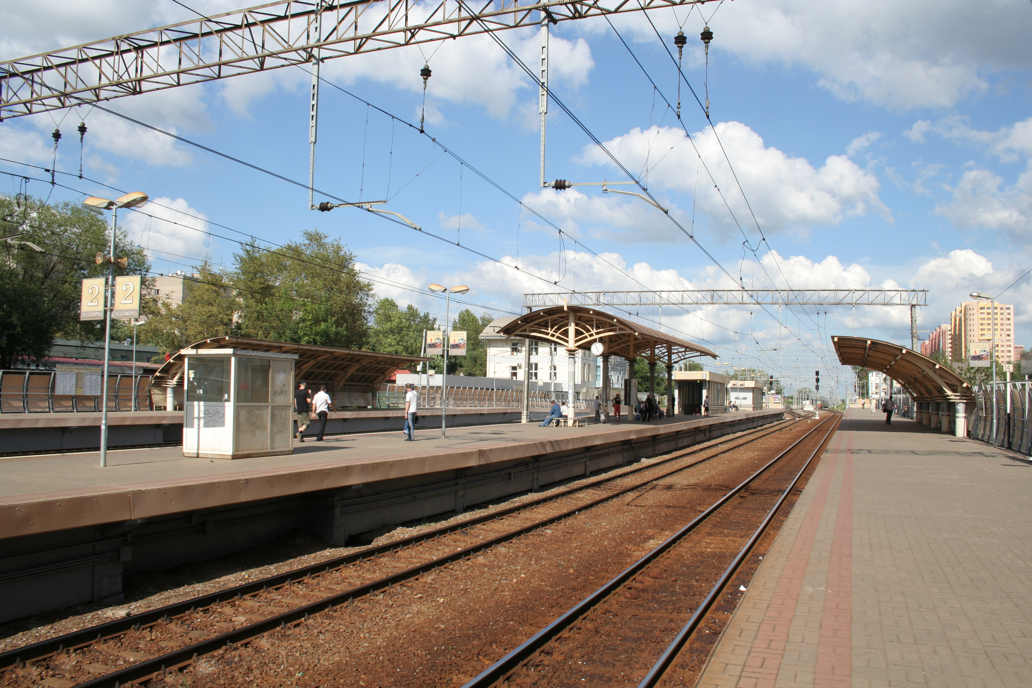 Train station in Reutov, Moscow Oblast, Russia.